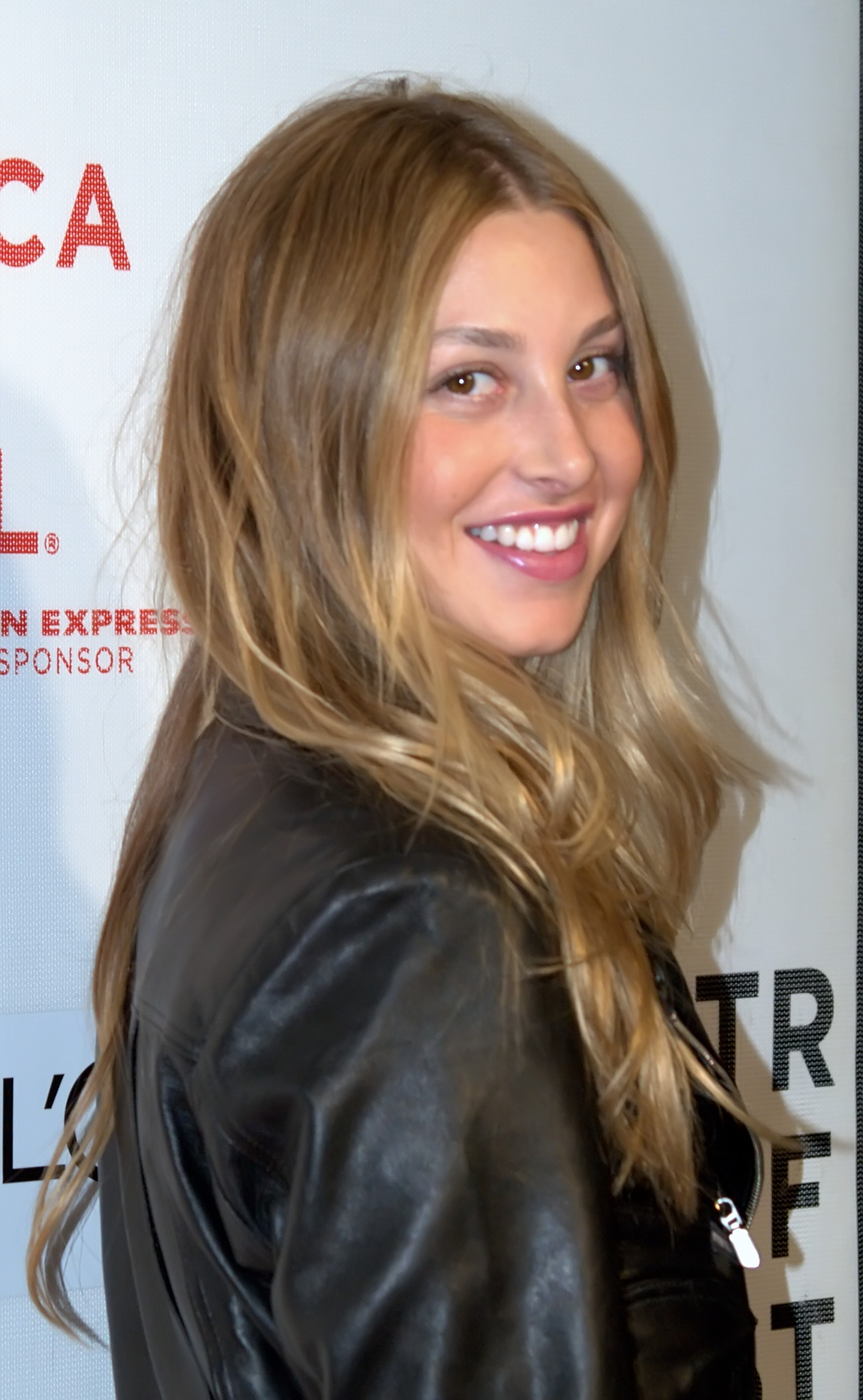 Whitney Port at the 2009 Tribeca Film Festival premiere of Don McKay.